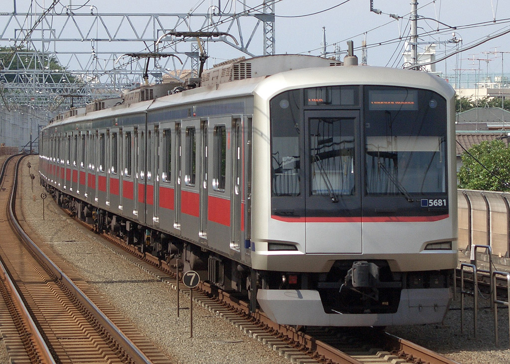 Tokyu 5080 series EMU on a Meguro Line service at Tamagawa Station